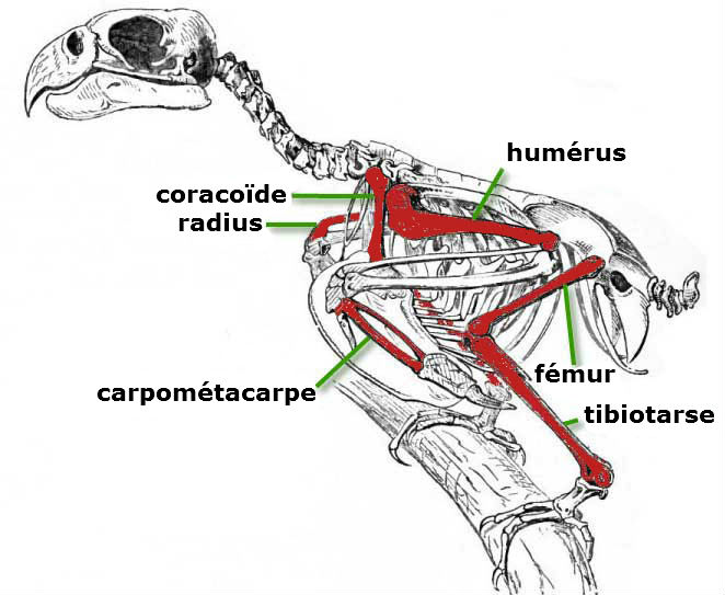 Skeleton of a parrot with bones excavated for the Saint Croix Macaw colored red.